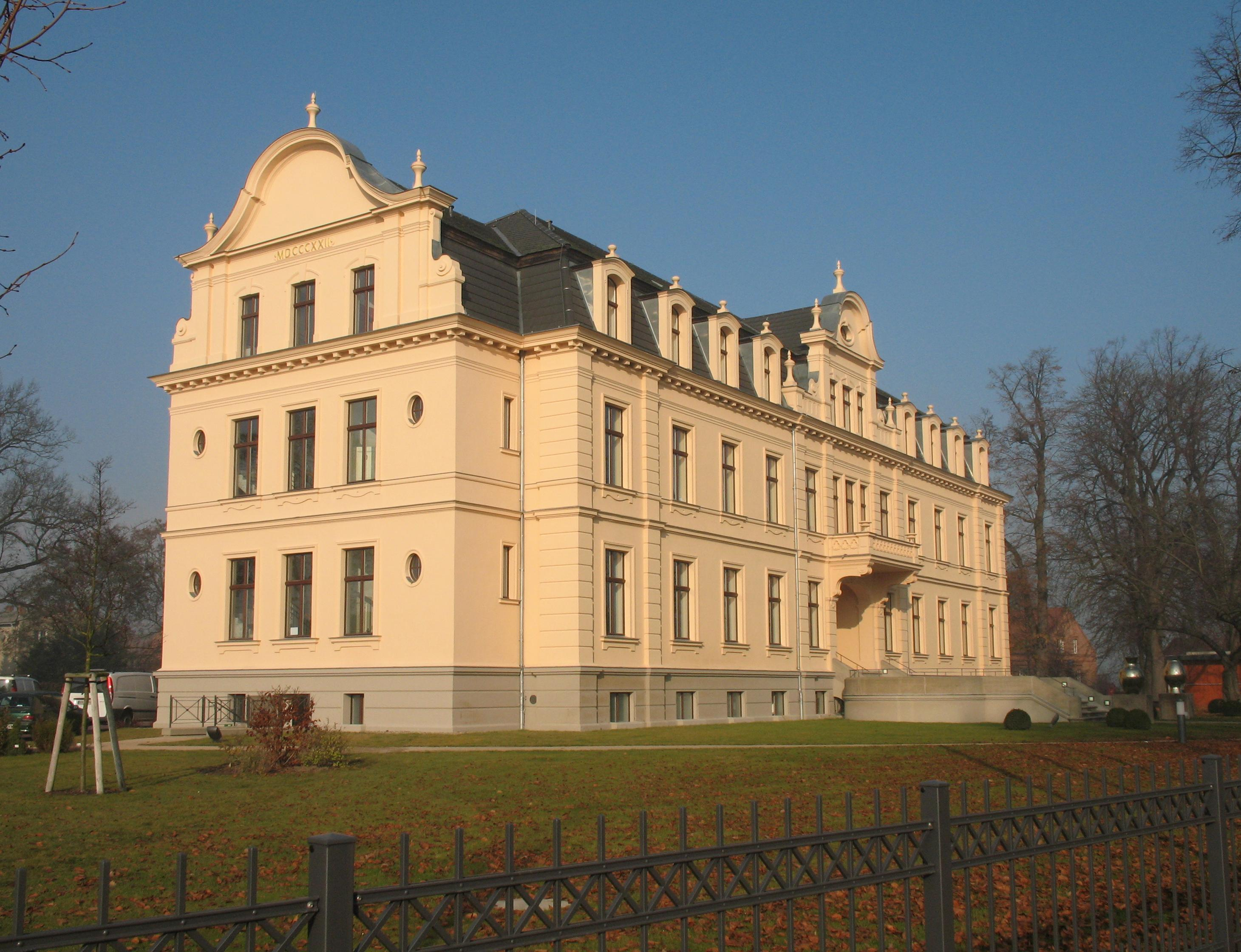 Palace in Nauen-Ribbeck in Brandenburg, Germany